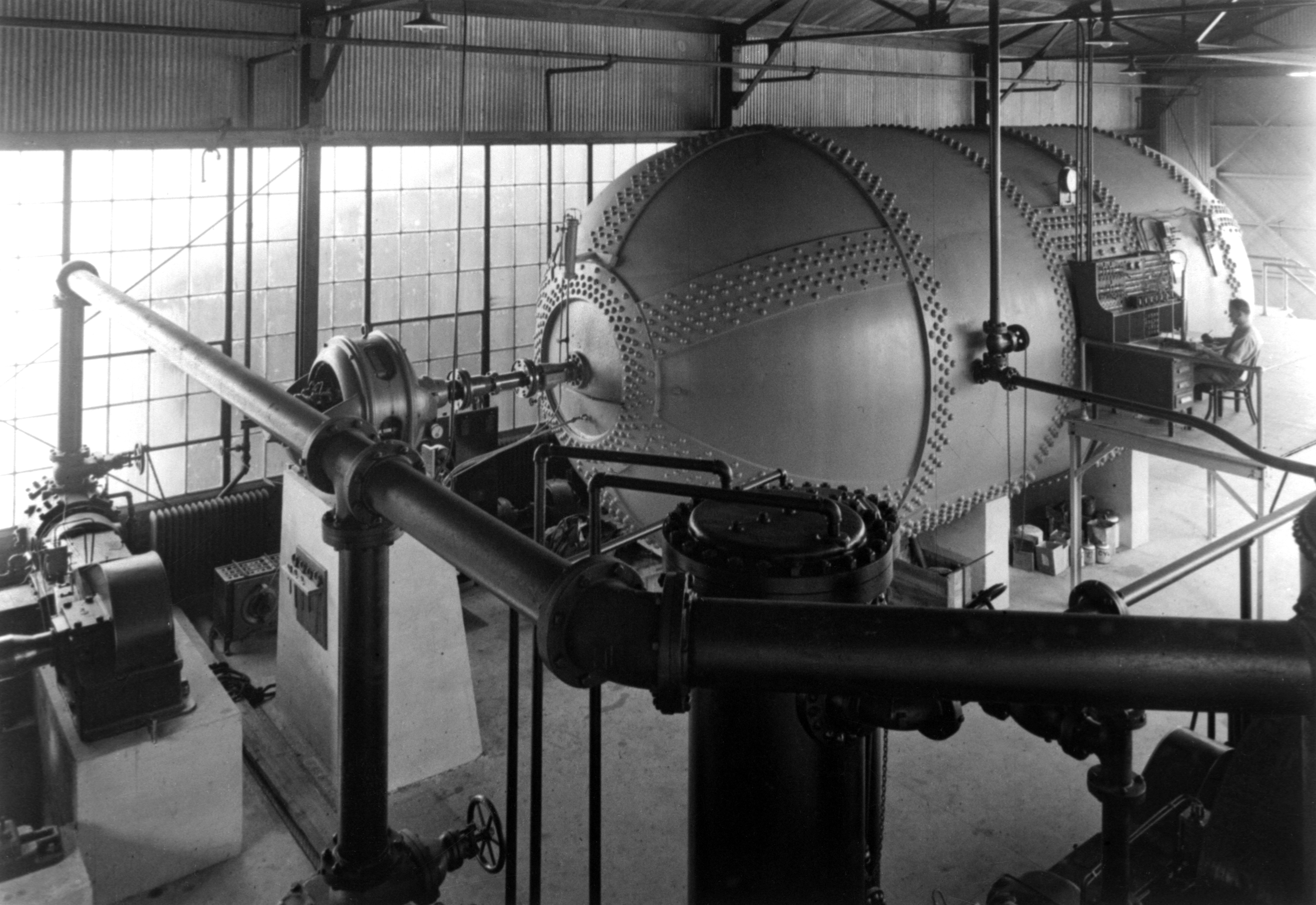 (L-463): This exterior view of the VDT shows its drive motor at left, a portion of the air compressor piping in the foreground, and an operator seated at the control panel on the right.